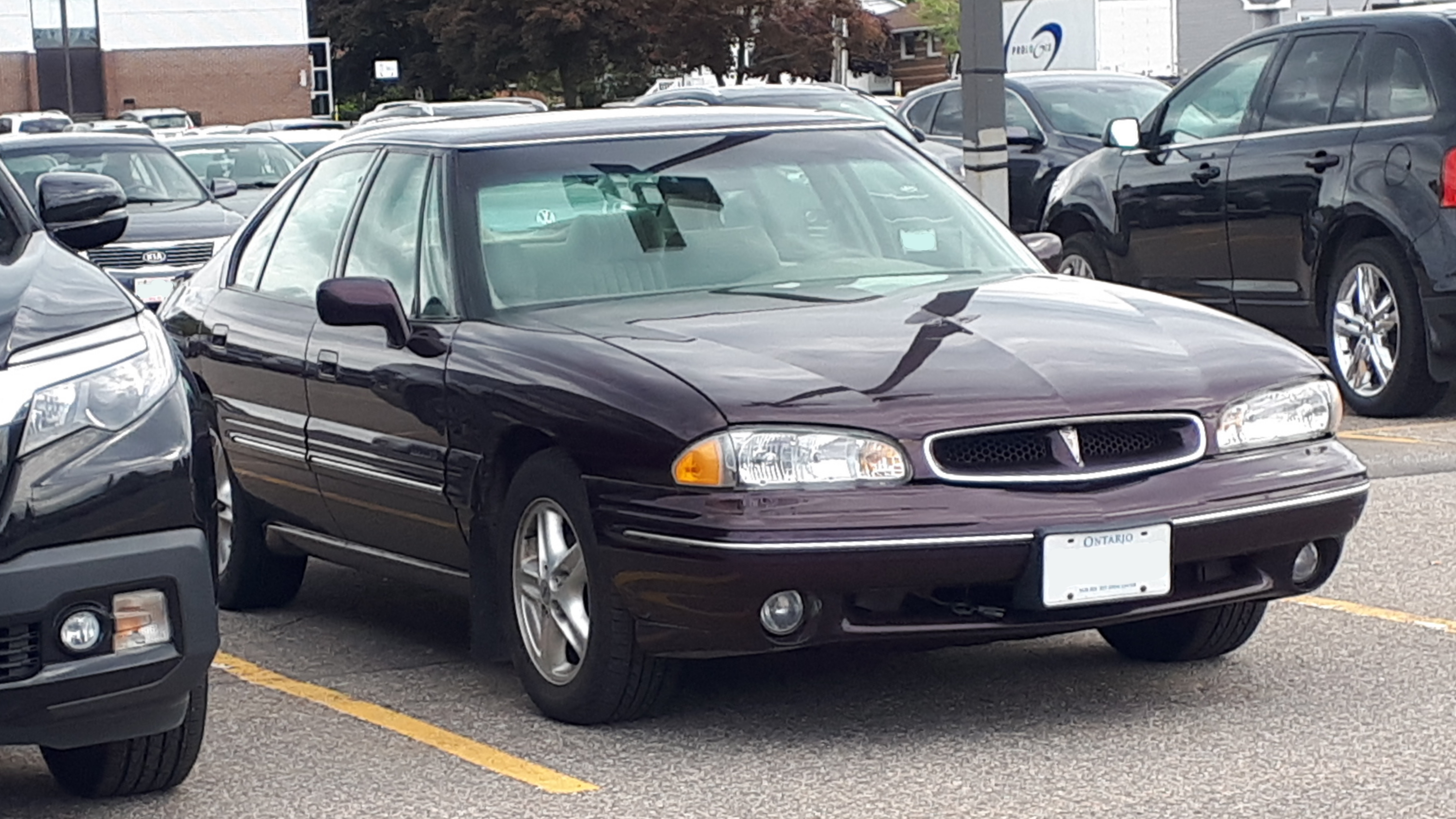 1996-1999 Pontiac Bonneville photographed in Sault Ste. Marie, Ontario, Canada